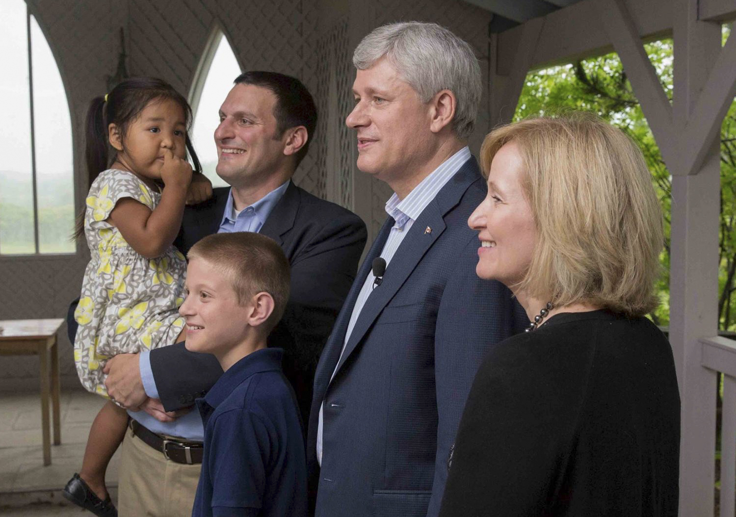 Watsons introducing adopted daughter Beatrice to Stephen and Loreen Harper